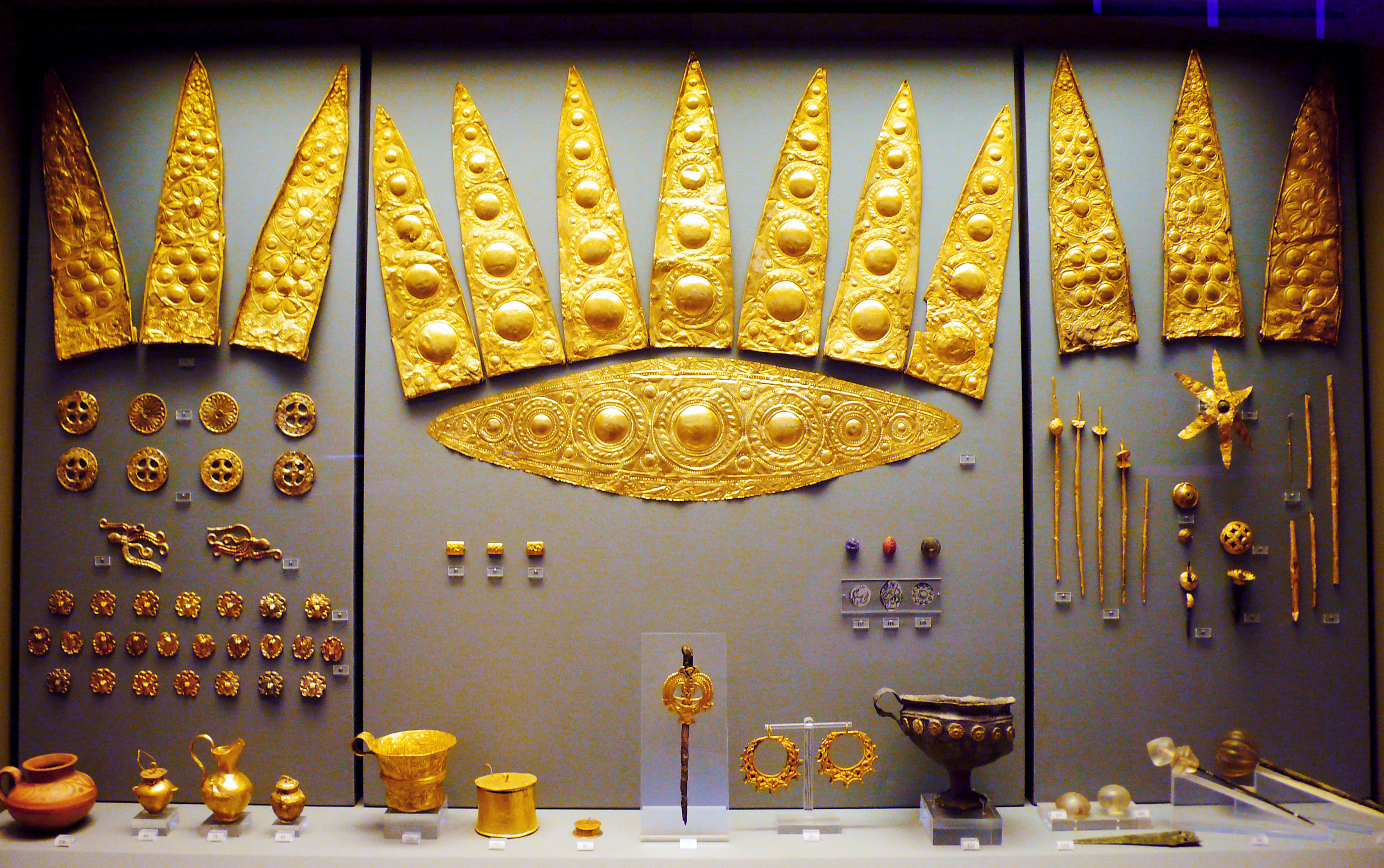 Remarkable gold elliptical funeral diadems, leaves, wheels, cups, earrings, pendants and pins from Shaft Grave III, "Grave of the Women", Grave Circle A, Mycenae. 1600-1500 BC. National Archaeological Museum, Athens. Once part of a large cemetery outside the acropolis walls, Grave Circle A was discovered within the Mycenaean citadel by Heinrich Schliemann in 1876 under the supervision of the Greek Ephor of Antiquities Panagiotis Stamatakis. The tombs in Grave Circle A contained a total of nineteen burials: nine males, eight females and two infants. With the exception of Grave II, which contained a single burial, all of the other graves contained between two and five inhumations. The amazing wealth of the grave gifts reveals both the high social rank and the martial spirit of the deceased: gold jewelry and vases, a large number of decorated swords and other bronze objects, and artefacts made of imported materials, such as amber, lapis lazuli, faience and ostrich eggs. All of these, together with a small but characteristic group of pottery vessels, confirm Mycenae's importance during this period, and justify Homer's designation of Mycenae as 'rich in gold.'